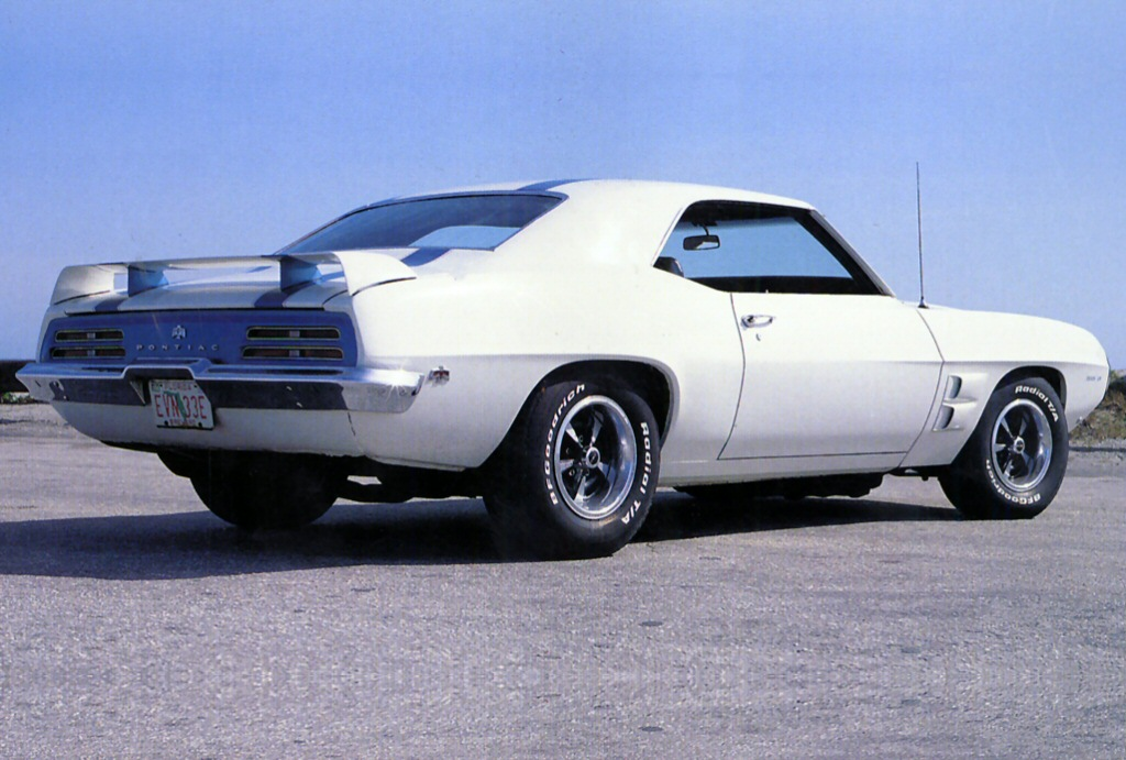 1969_Pontiac_Trans_Am_Coupe_White_Rr_Qtr